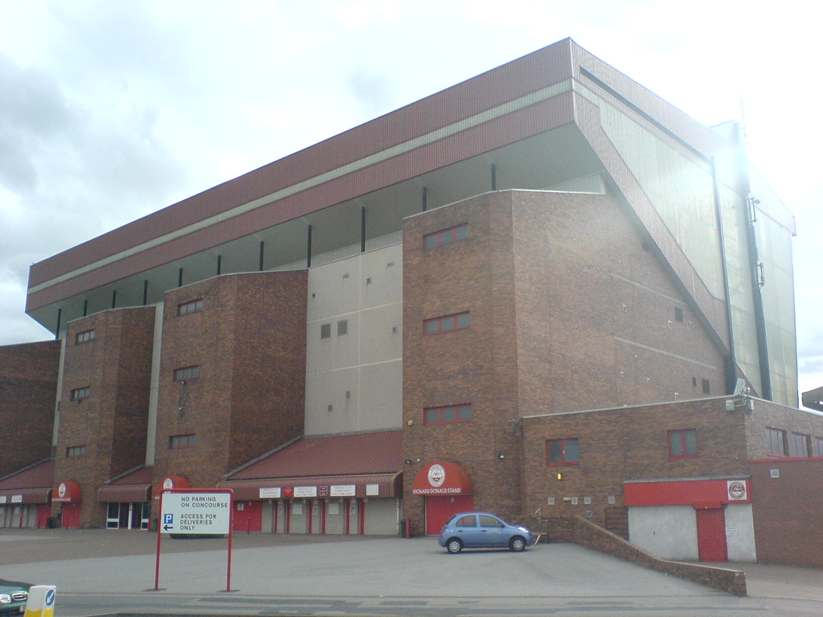 Photo taken by Euan Bain (User:Discosebastian) in Aberdeen on August 7th, 2006.